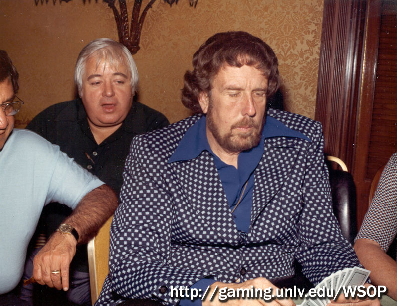 Jack Straus at the 1974 World Series of Poker